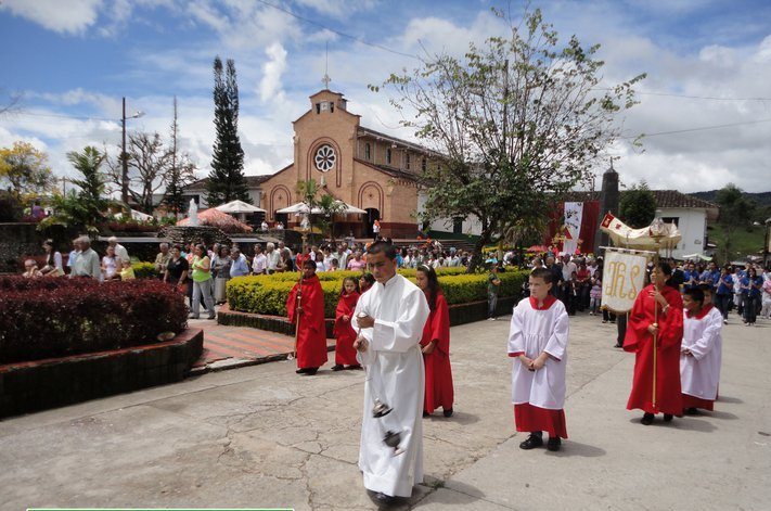 sa